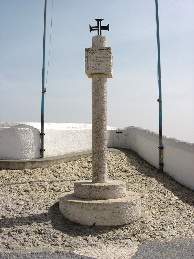 Padrão (pillar) at Nazaré, Portugal, with an inscription commemorating Vasco da Gama's visit here after his voyage to India, giving thanks to Nossa Senhora da Nazaré (Our Lady of Nazareth) for his safe return.